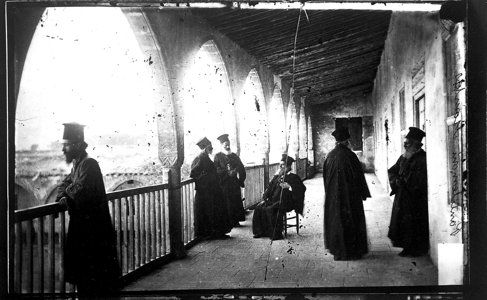 A group of Greek Orthodox monks standing on an open loggia, St Pantelemoni, Cyprus. Iconographic Collections Keywords: John Thomson; Siam (Thailand); Cyprus; Cyprus Convention; Ottomon Empire; John Thomson